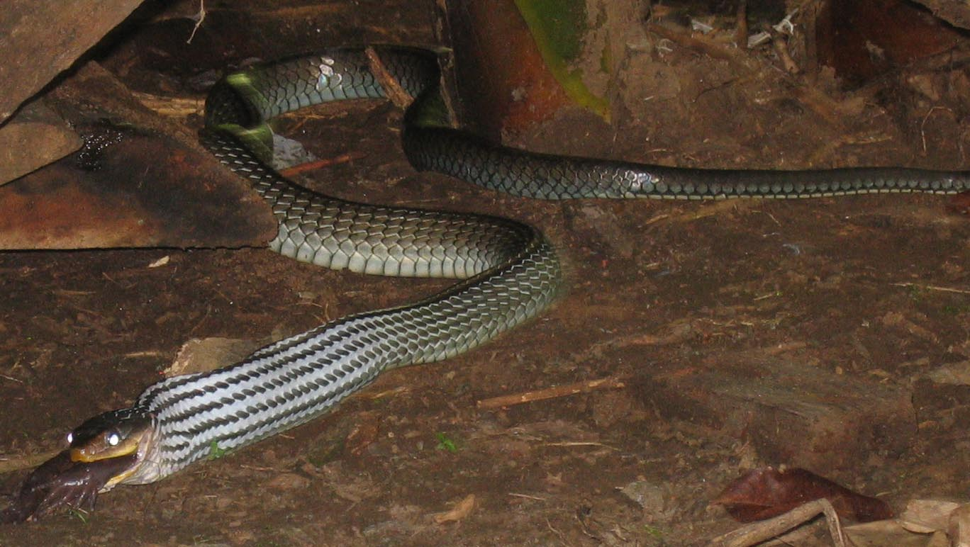 A snake feeding on Smoky Jungle Frog?